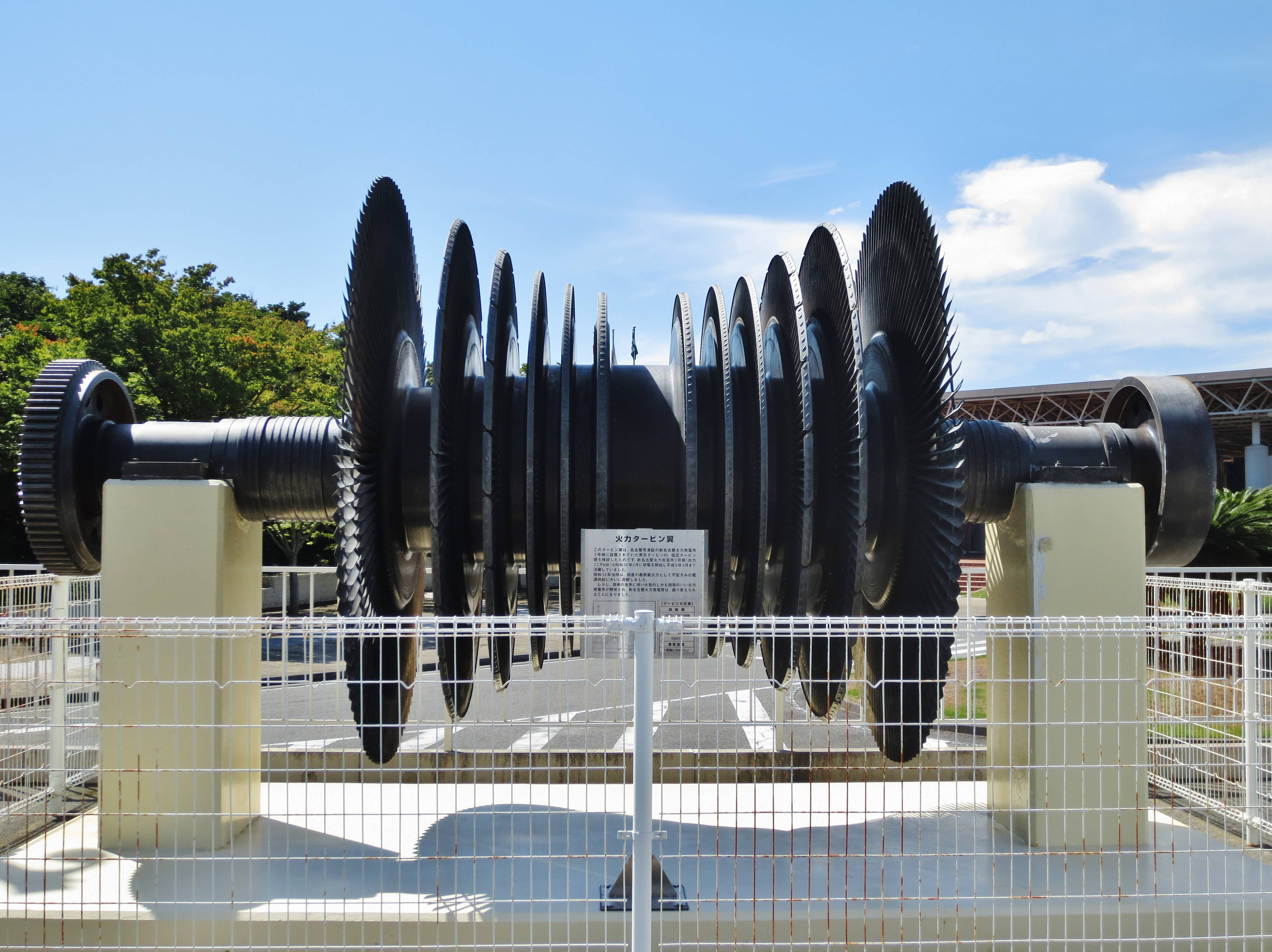 Hamaoka Nuclear Exhibition Center Shin-Nagoya Thermal Power Station Unit-3 low pressure steam turbine rotor.